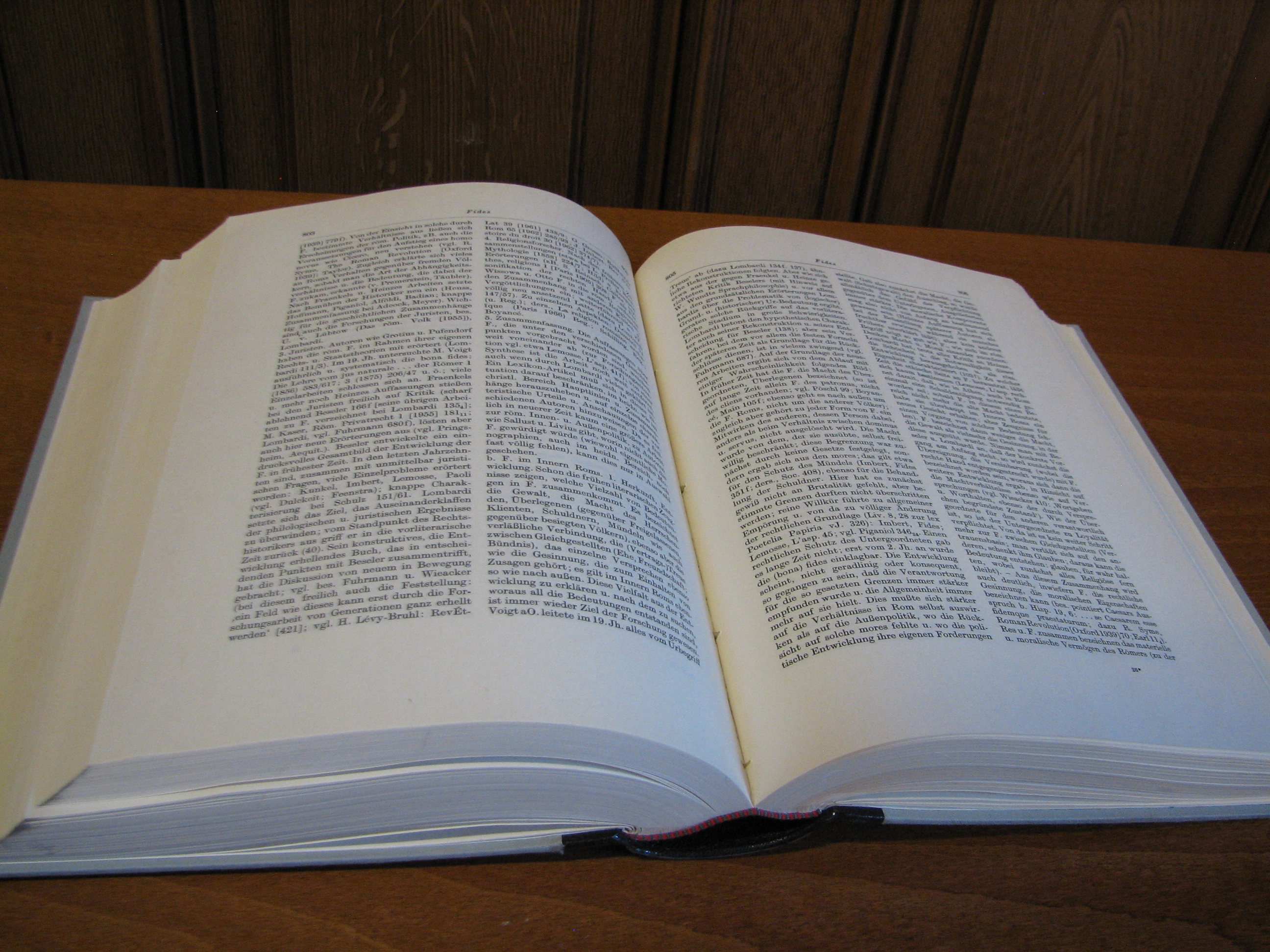 An open volume of Reallexikon für Antike und Christentum.